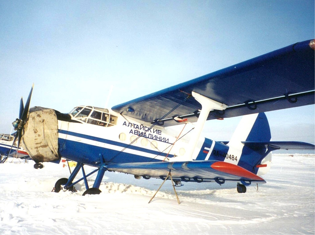 Antonov An-2 of Altai Airlines